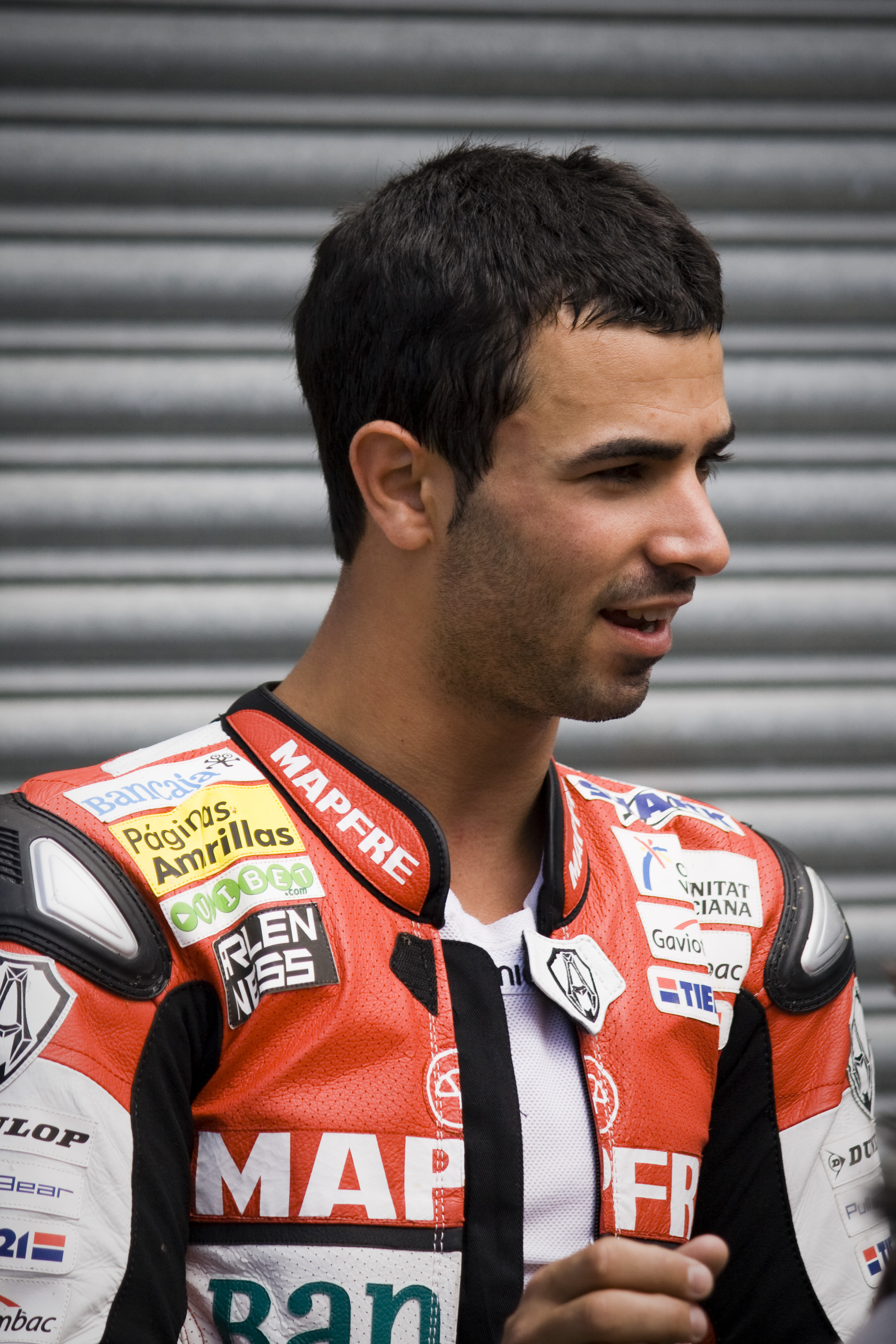 Moto2 racer and former 125cc World Champion Mike Di Meglio